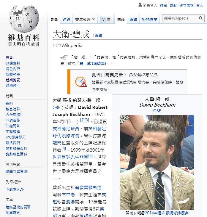 Displaying problem of the font Microsoft Jhenghei, when displaying the word "碧" in bold, it have an extra space after the word.